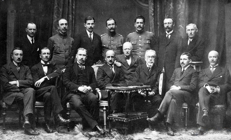 Komitet Obrony Kresów Wschodnich 1919 (Siedzą od lewej: Olgierd Gordziałkowski, Władysław Raczkiewicz, Mirosław Obiezierski, Michał Kossakowski. Widoczni również: Michał Obiezierski, Czesław Krasicki, I. Witkiewicz, Władysław Marian Zawadzki (siedzi 2 z prawej), Wacław Wasilewski, Antoni Jundziłł, M. Parafianowicz, Czesław Krupski, M. Boguszewski, W. Pusłowski, E. Obrąpalski)